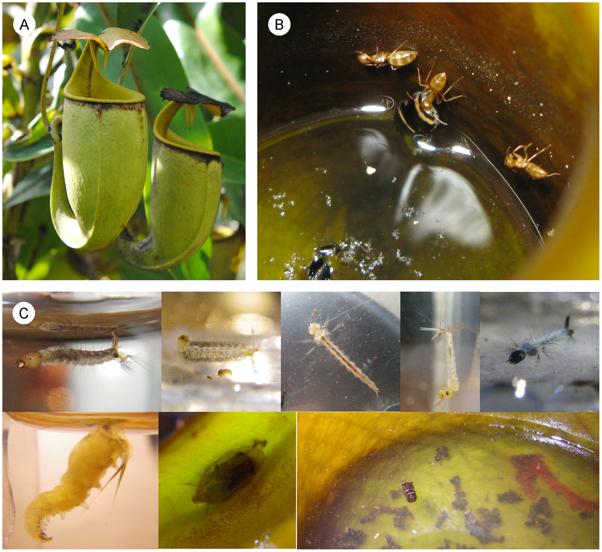 Original caption: "Figure 1. Association between Nepenthes bicalcarata pitcher plants, Camponotus schmitzi ants, and fly larvae that develop in the pitchers. A. Pair of N. bicalcarata upper pitchers. B. C. schmitzi workers retrieve a drowned cockroach from the fluid inside a pitcher. C. examples of the rich dipteran infauna of N. bicalcarata; from left to right; top row: Toxorhynchites sp., Tripteroides sp., Culex morphospecies 1, Culex morphospecies 2, Uranotaenia sp.; bottom row: Wilhelmina nepenthicola, large puparium (cf. Phoridae) hanging under the pitcher rim, large culicid pupa at fluid surface (other pupae, culicid larvae and Polypedilum (Chironomidae) larvae living in protective cases are also visible).